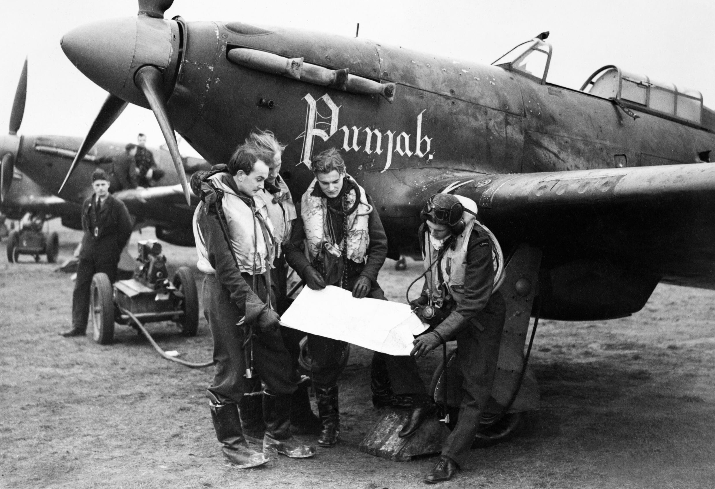 Pilots and Hawker Hurricanes of No. 56 'Punjab' Squadron RAF at Duxford, 2 January 1942. Pilots and Hurricanes of No 56 'Punjab' Squadron at Duxford, 2 January 1942. The official caption reads: 'Fighter aircraft donated by the Province of the Punjab have been in action and have scored numerous victories over the Hun'. The pilot in the centre is Wing Commander Vernon Gifkins.